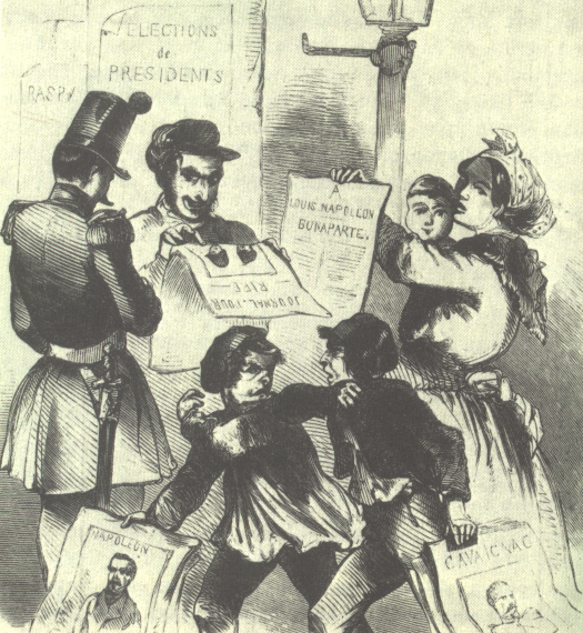 From the presidential campaign in France 1848. Two boys are fighting, one for Louis Napoleon and one for Cavaignac. Woodcut, published in “Illustrierte Zeitung”, 1848